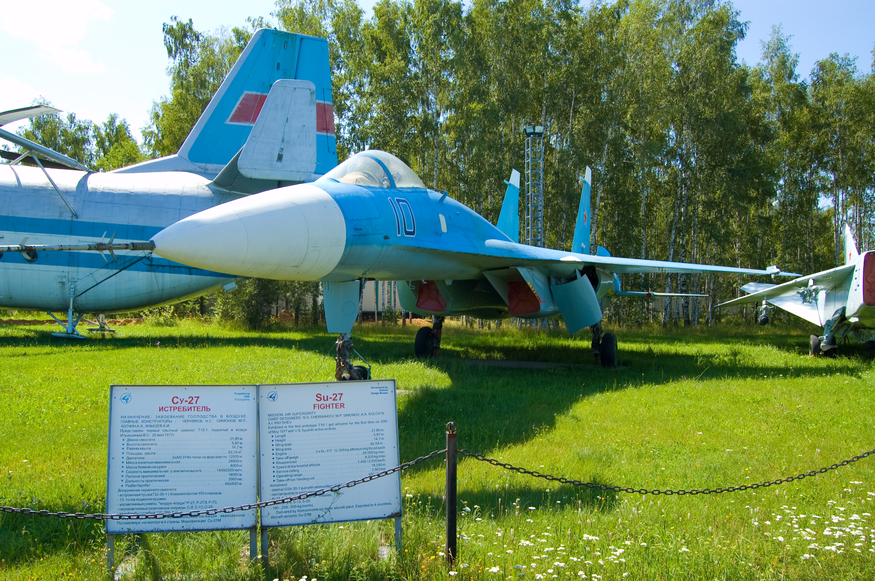 Sukhoi Su-27's prototype, the T-10